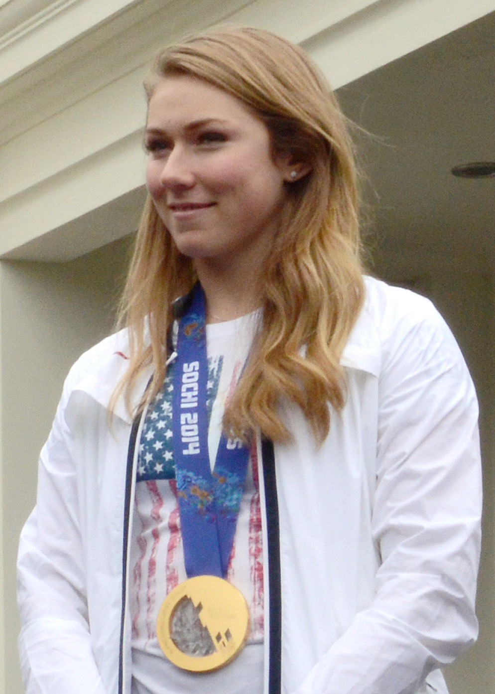 Athletes from the 2014 Olympic and Paralympic Winter Games speak to the media outside the White House, before an East Room event honoring them hosted by President Barack Obama and first lady Michelle Obama, Washington, D.C, April 3, 2014. From left to right, Julie Chu of Fairfield, Conn, who won silver with the women's ice hockey team; Sage Kostenberg of Park City, Utah, who won a gold medal in slopestyle snowboarding; Jon Lujan of Littleton, Colo., Paralympics Alpine Skiing, former Marine Corps sergeant and 2014 Winter Paralympic Games opening ceremony Team USA flag bearer; Mikaela Shiffrin, from Eagle-Vail, Colo., who won gold in Women’s Slalom in Sochi; Stephanie Jallen of Kingston, Pa., Paralympics Women's Alpine Skiing, Super-G, bronze medalist. (Army News Service photo by Lisa Ferdinando)